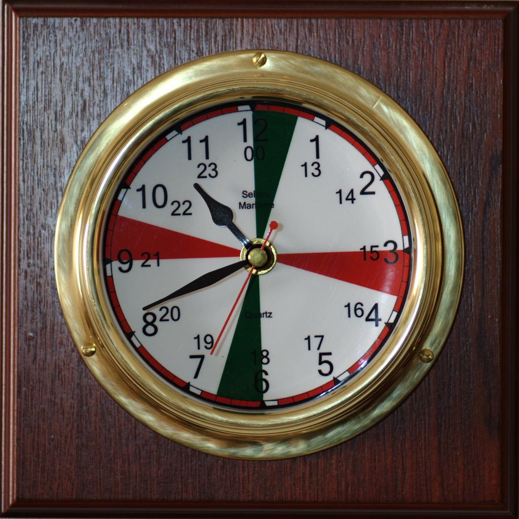 A quartz radio room clock, sold by Seldec Publishing, in own collection.